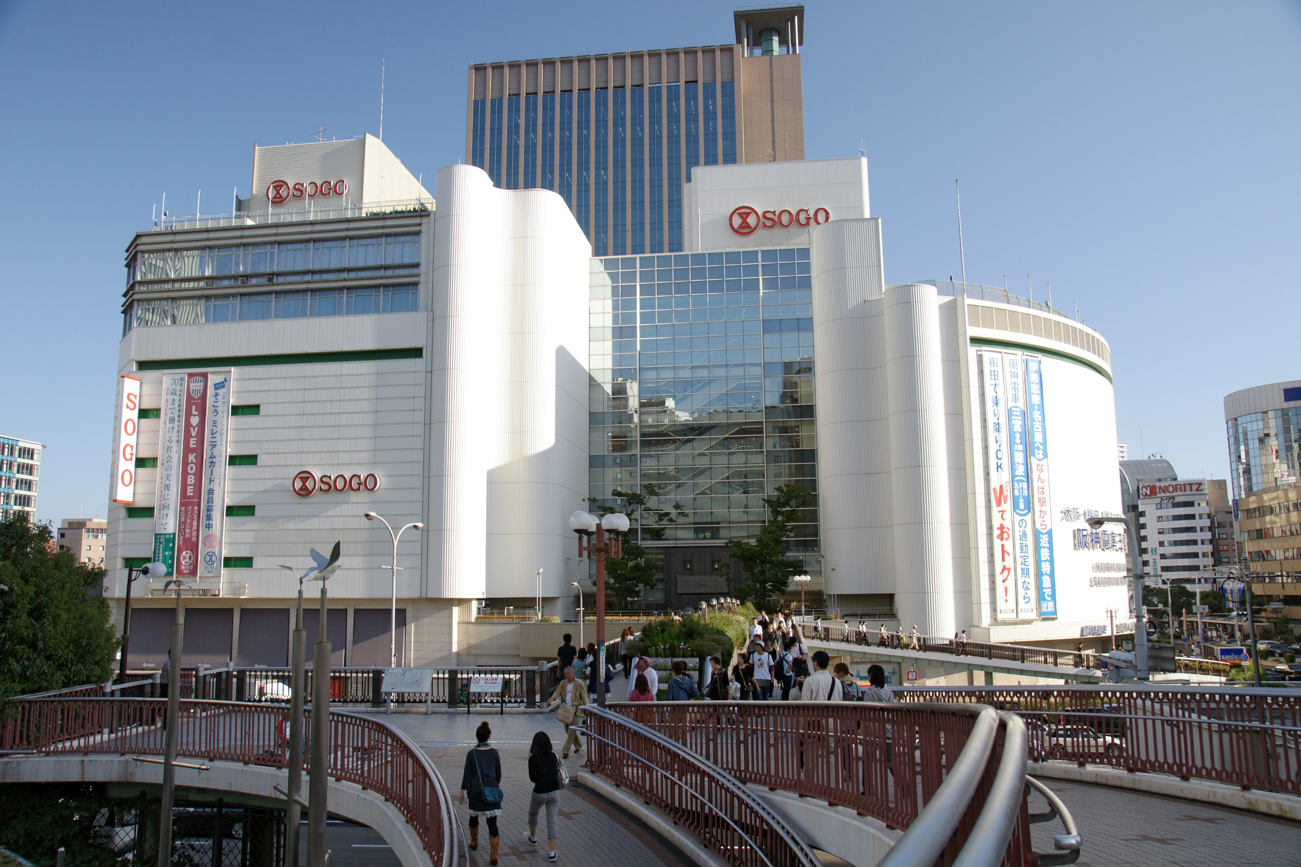 Sogo department store in Kobe, Hyogo prefecture, Japan